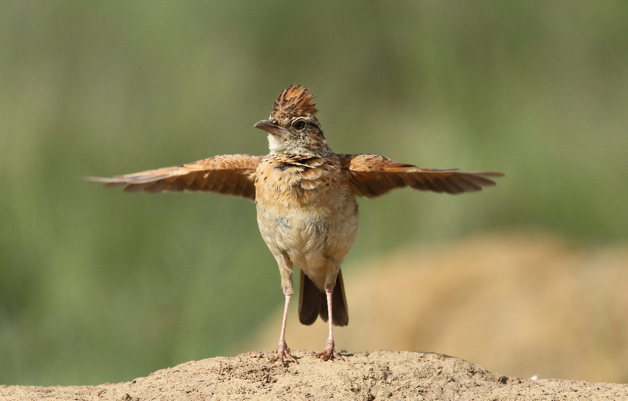 Song and dance routine of the Rufous-naped Lark, Mirafra africana at Rietvlei Nature Reserve, Gauteng, South Africa